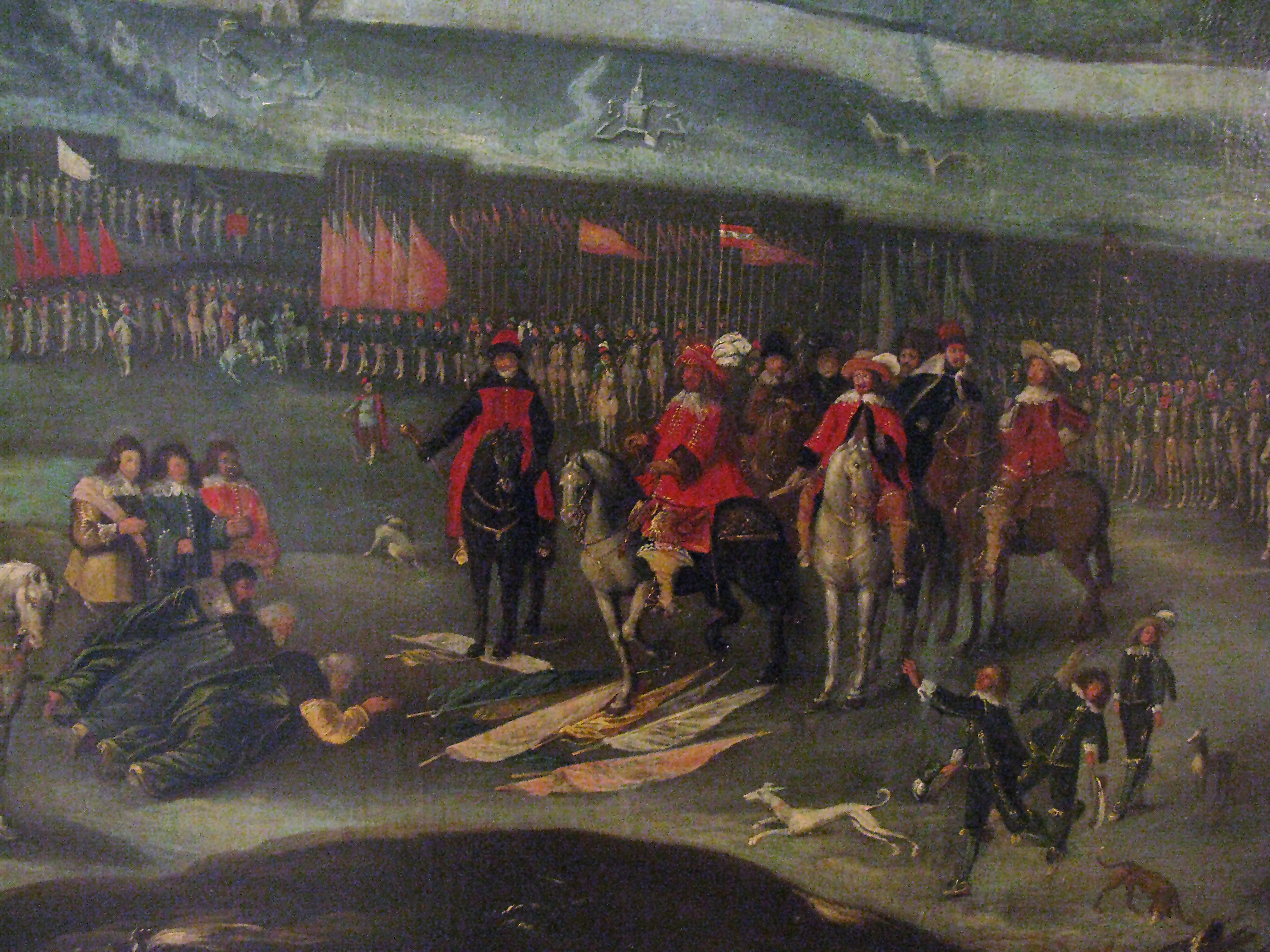 Capitulation of Russian garrison of Smolensk before Vladislaus IV Vasa of Poland 1634